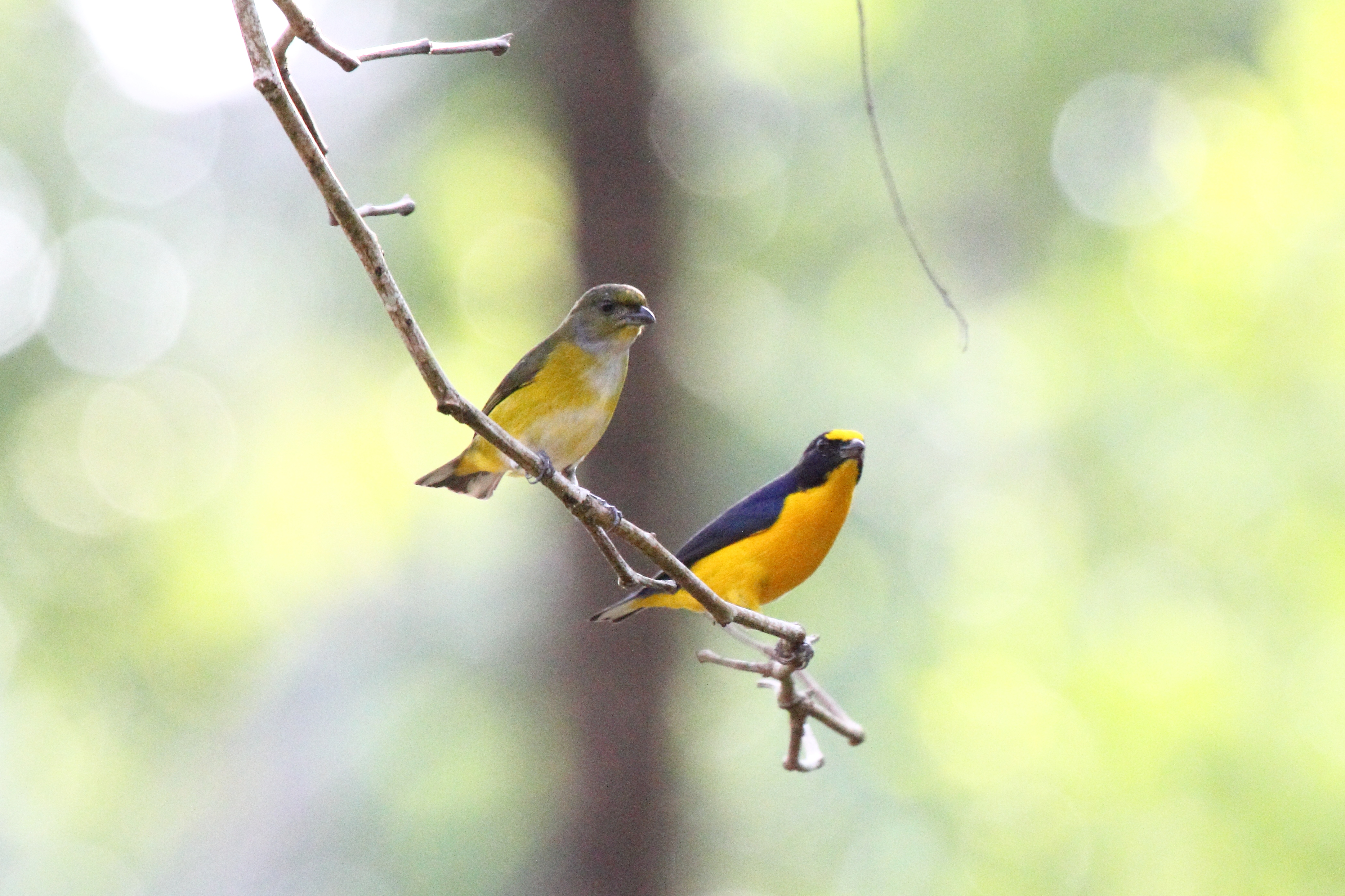 Yellow-throated Euphonia (Euphonia hirundinacea)